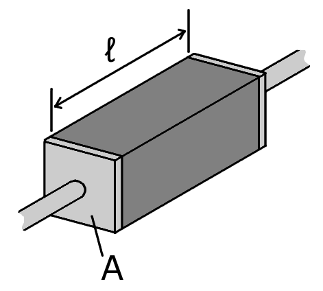 A somewhat cartoonish diagram of the geometry of the resistivity equation.